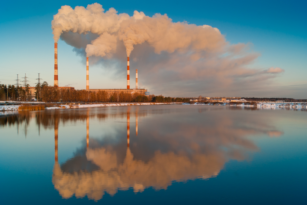 photo of Reftinsky thermal power station